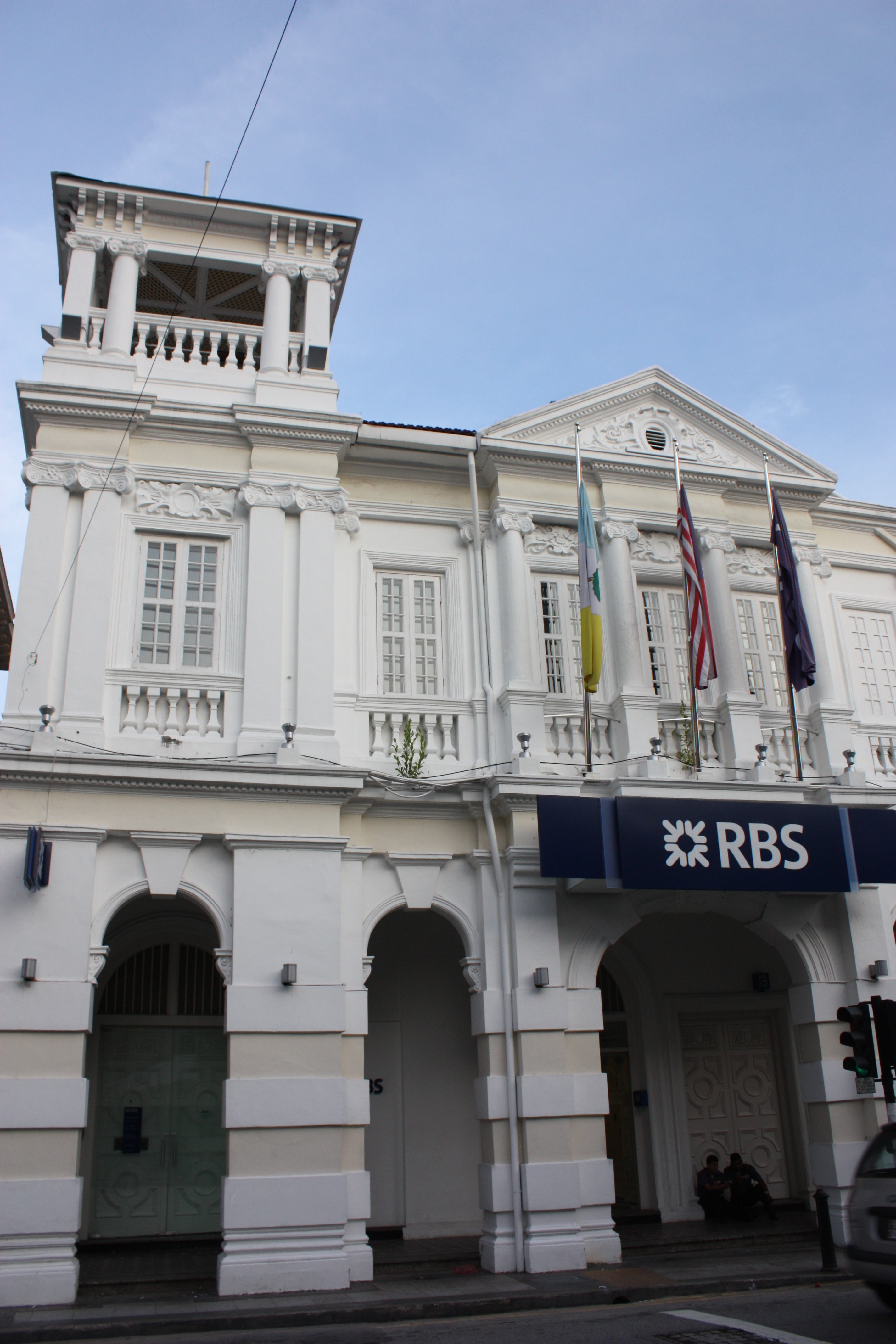 Photo of Royal Bank of Scotland Building in Penang, taken by Wolfgang Holzem